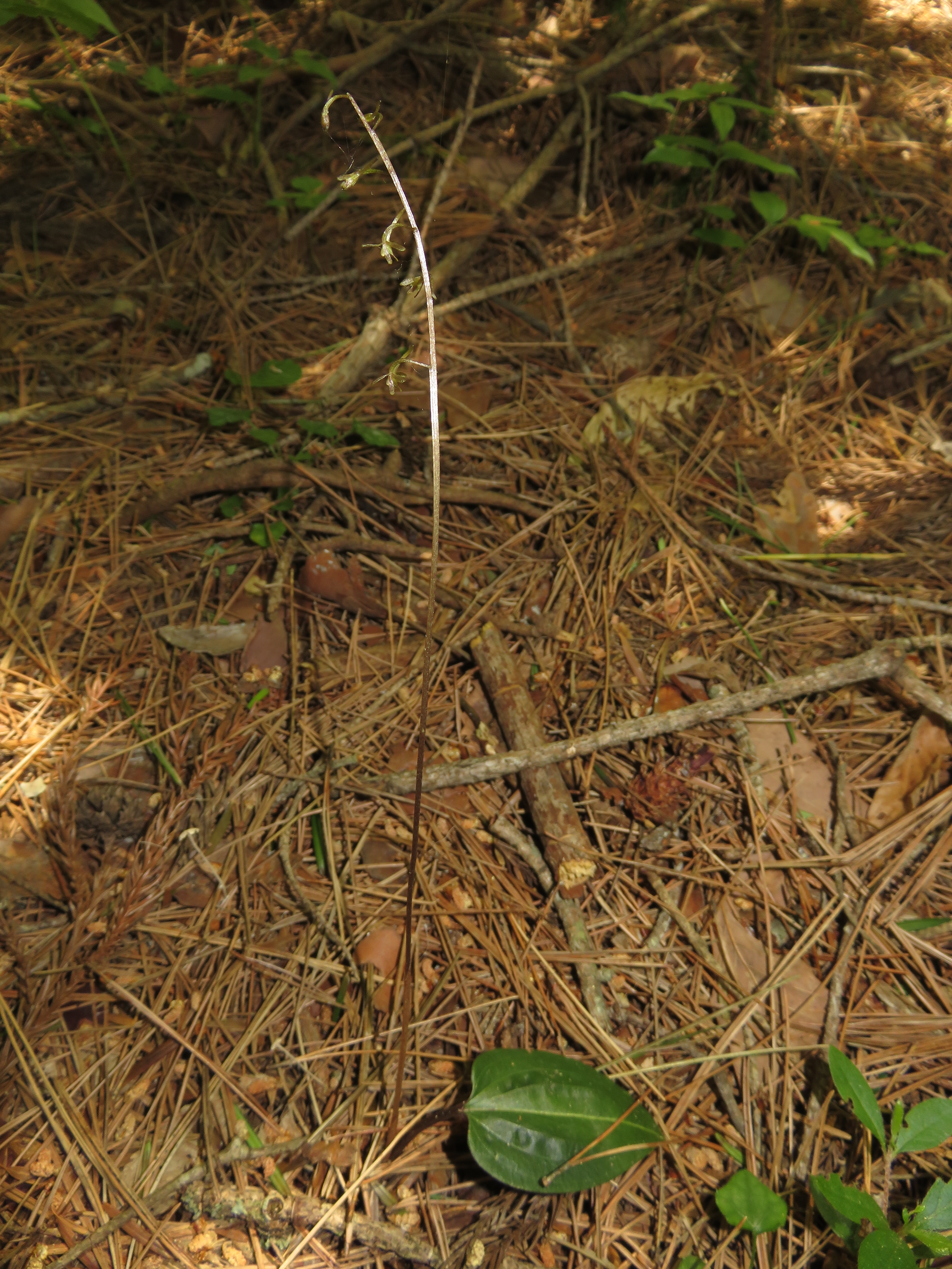 Tipularia japonica, Hama-dori area, Fukushima pref., Japan